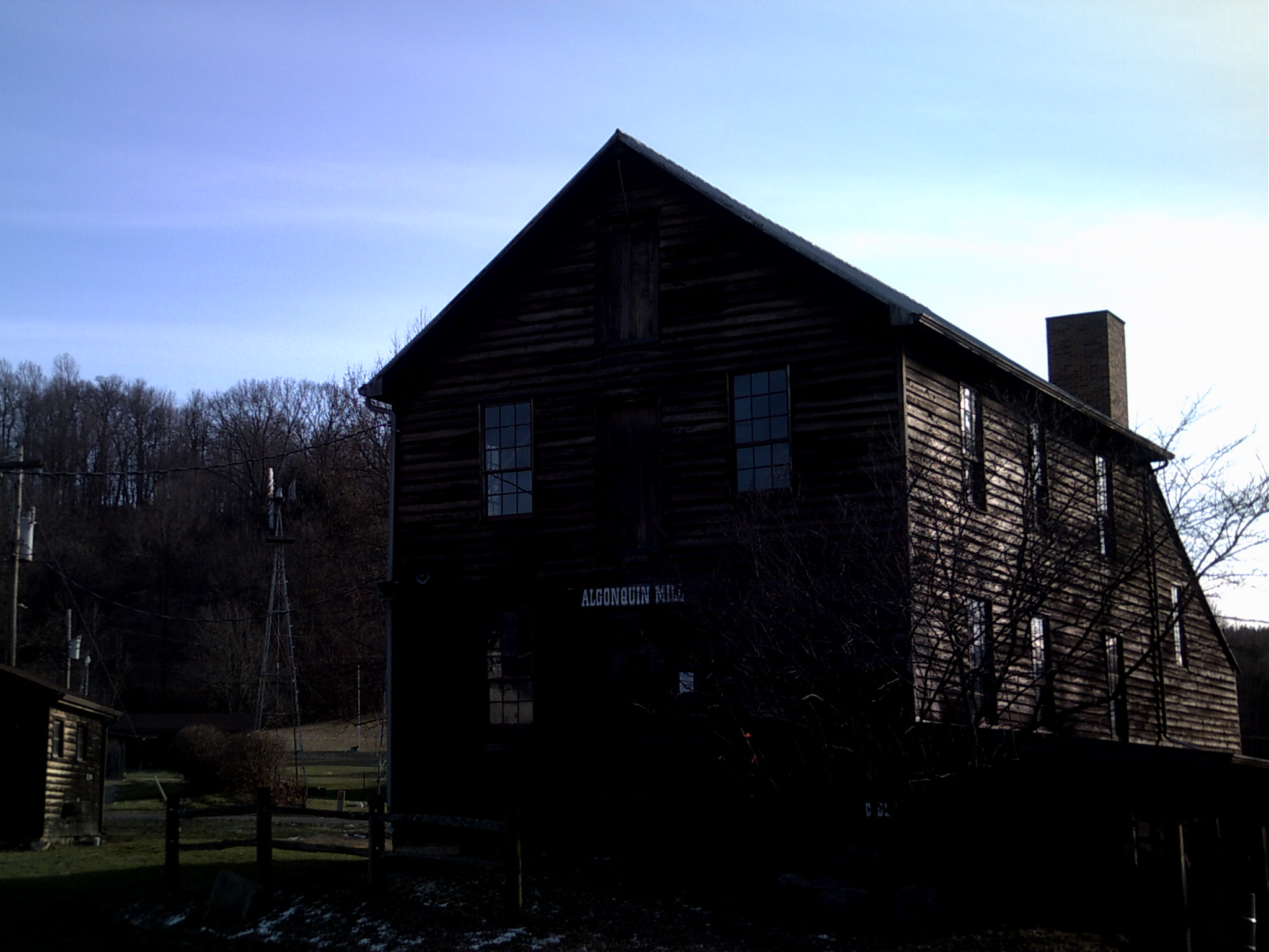 the Petersburg Mill aka. Algonquin Mill south of Carrollton, Ohio on the Natl. Reg. Hist Places